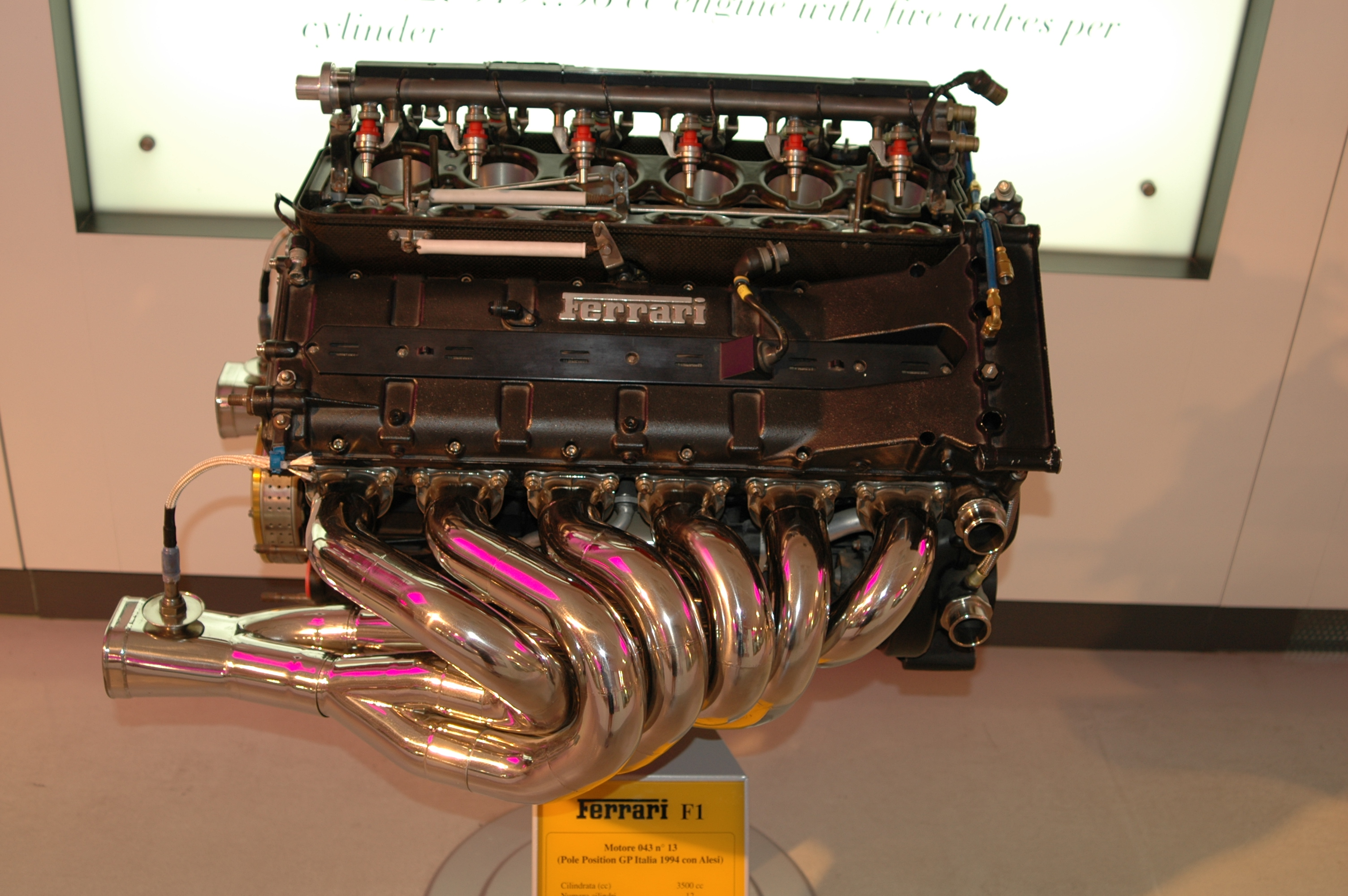 1994 Ferrari 043 engine (n° 13)